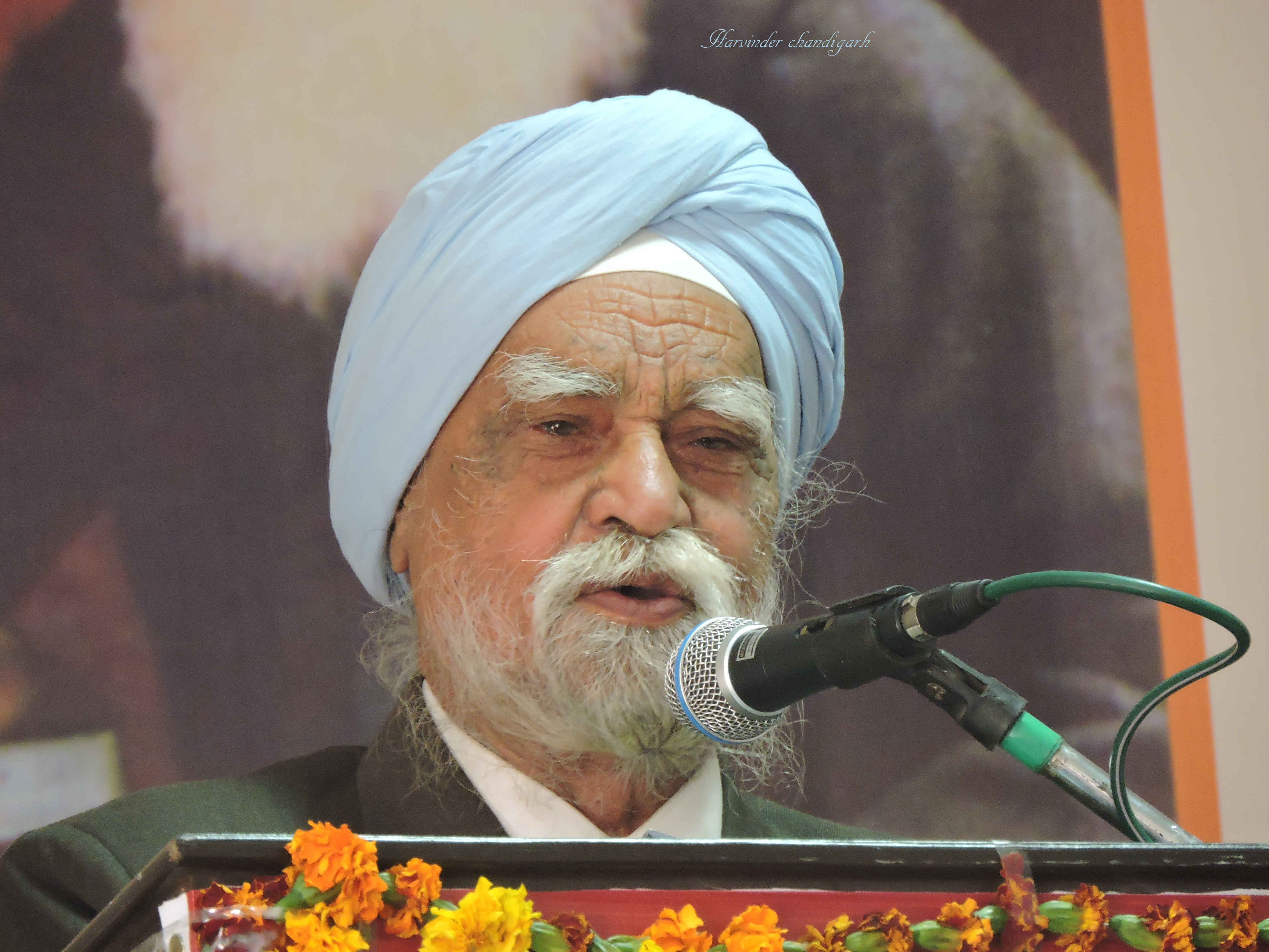 Sardar Panchi, an eminent Urdu Language poet from Punjab, India